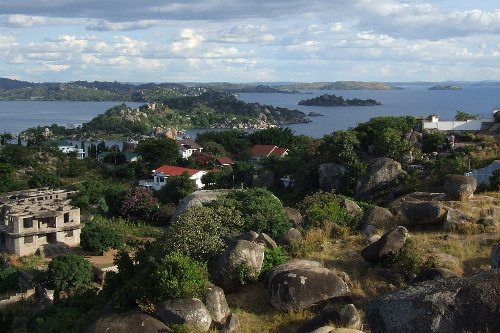 Mwanza city, Tanzania's second largest city